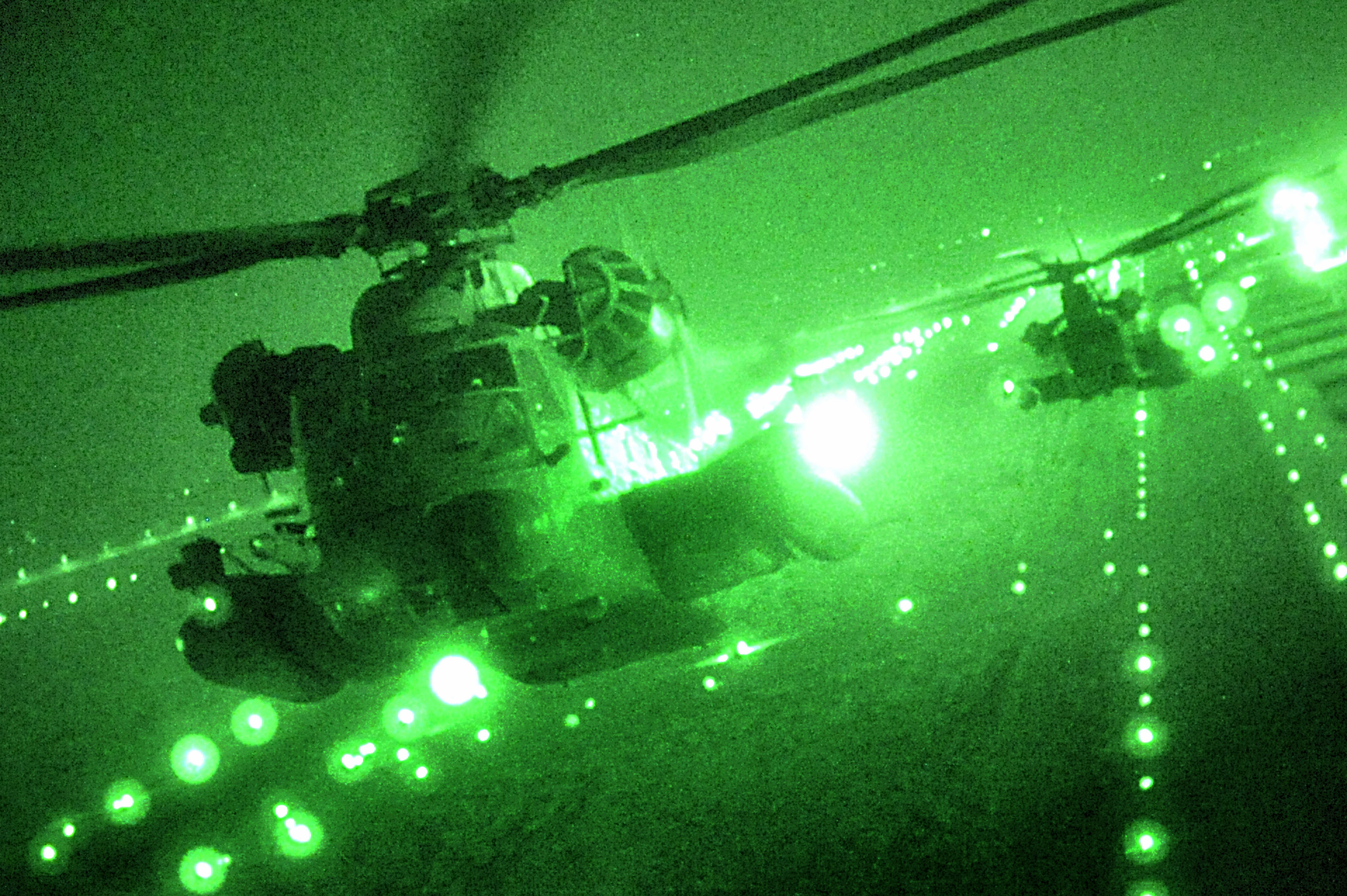 MH-53 Pave Lows from the 20th Expeditionary Special Operations Squadron fly over Iraq on their last combat missions Sept 27. The MH-53 is being retired after nearly 40 years of service to the Air Force. (U.S. Air Force photo)